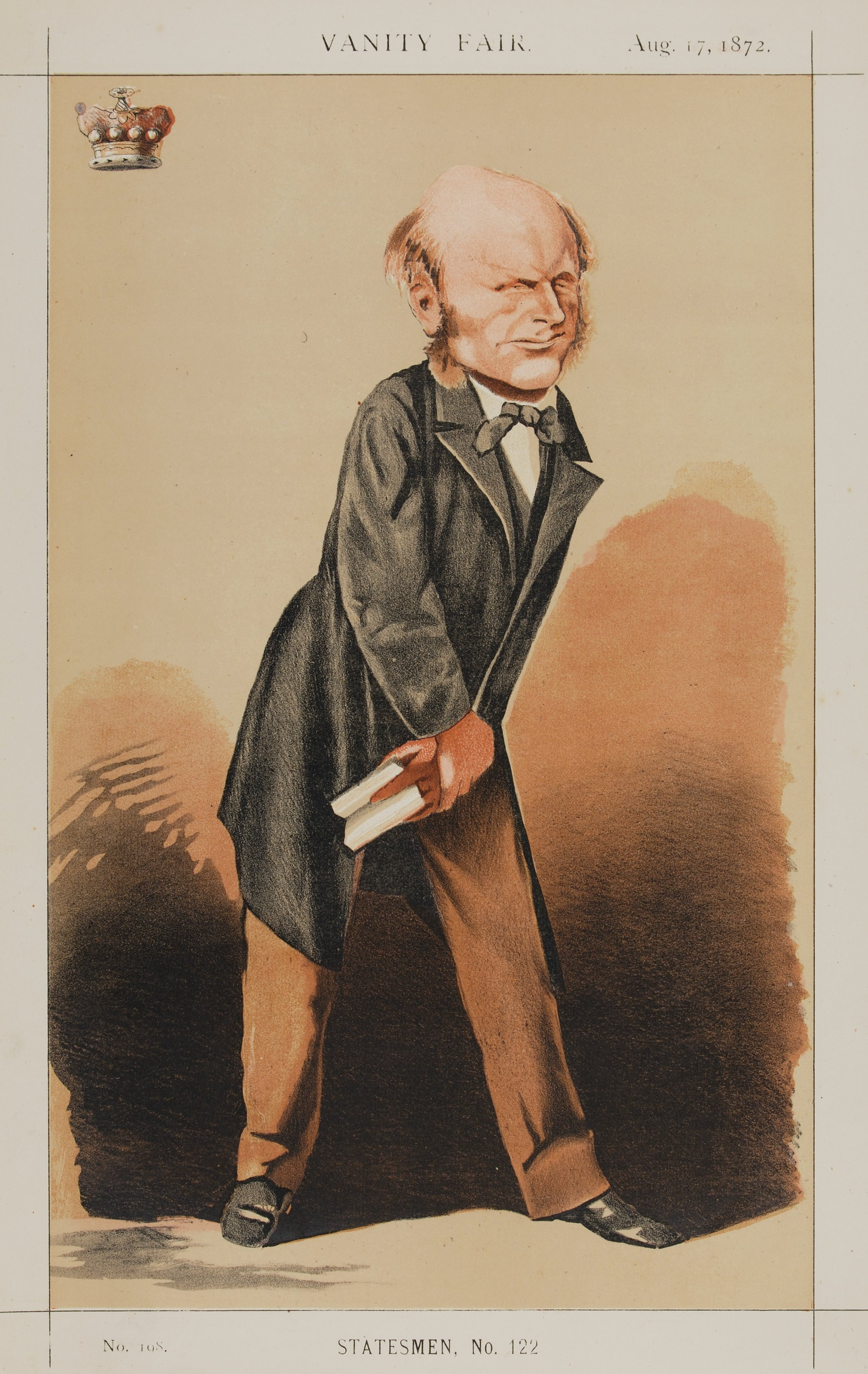 Statesmen No.122: Caricature of Lord Radstock (1833-1913). Caption reads: "D.V."